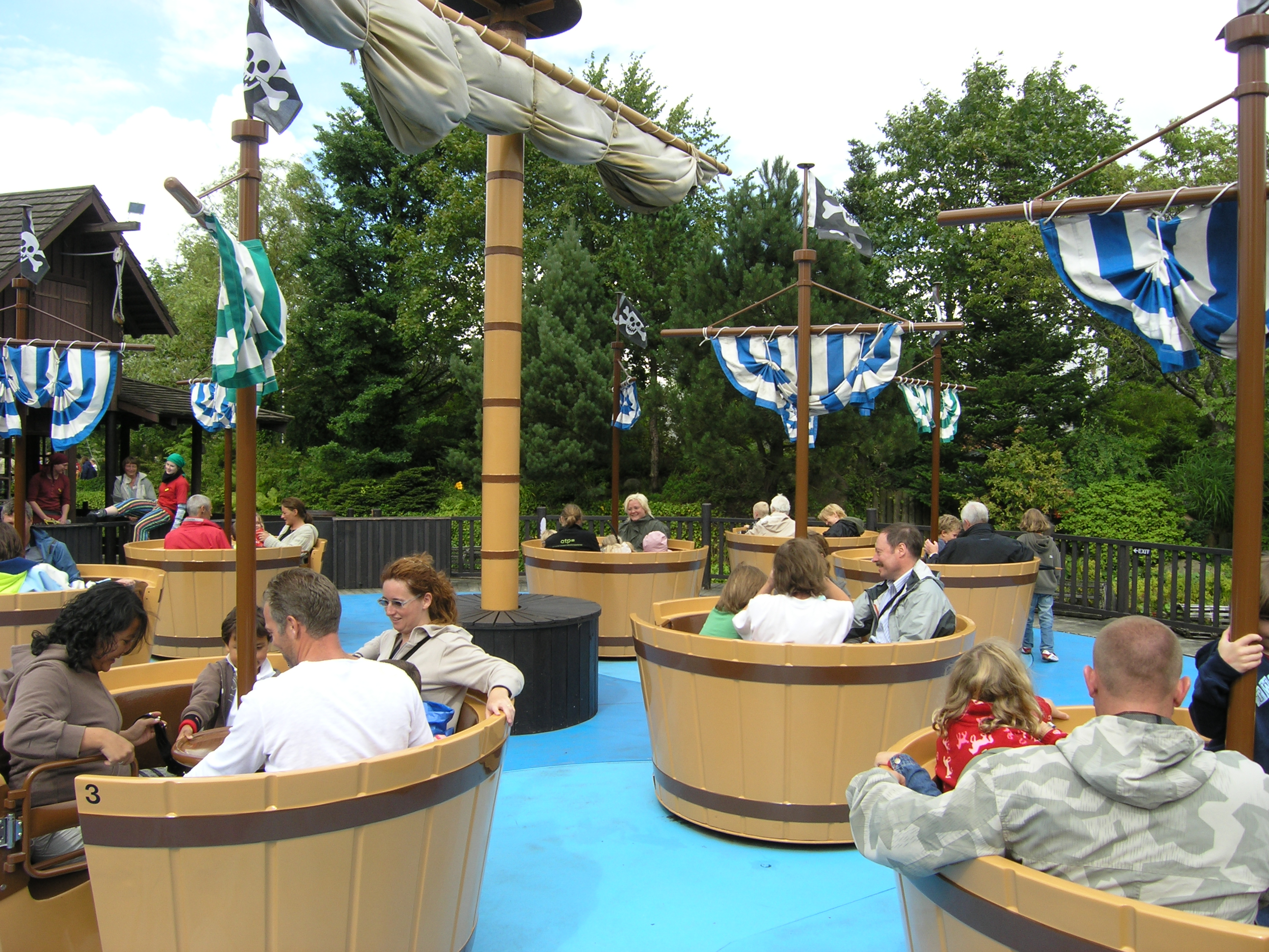 A pirate-themed teacups at Legoland Billund